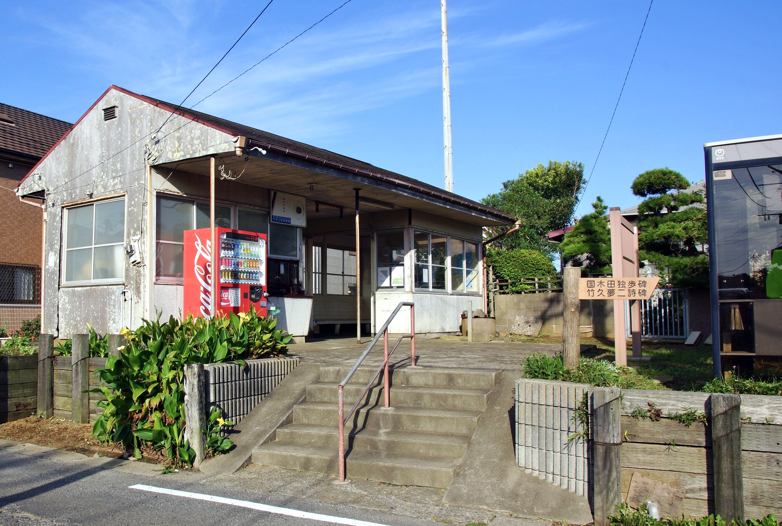 The entrance to Ashikajima Station on the Choshi Electric Railway in Chiba Prefecture, Japan